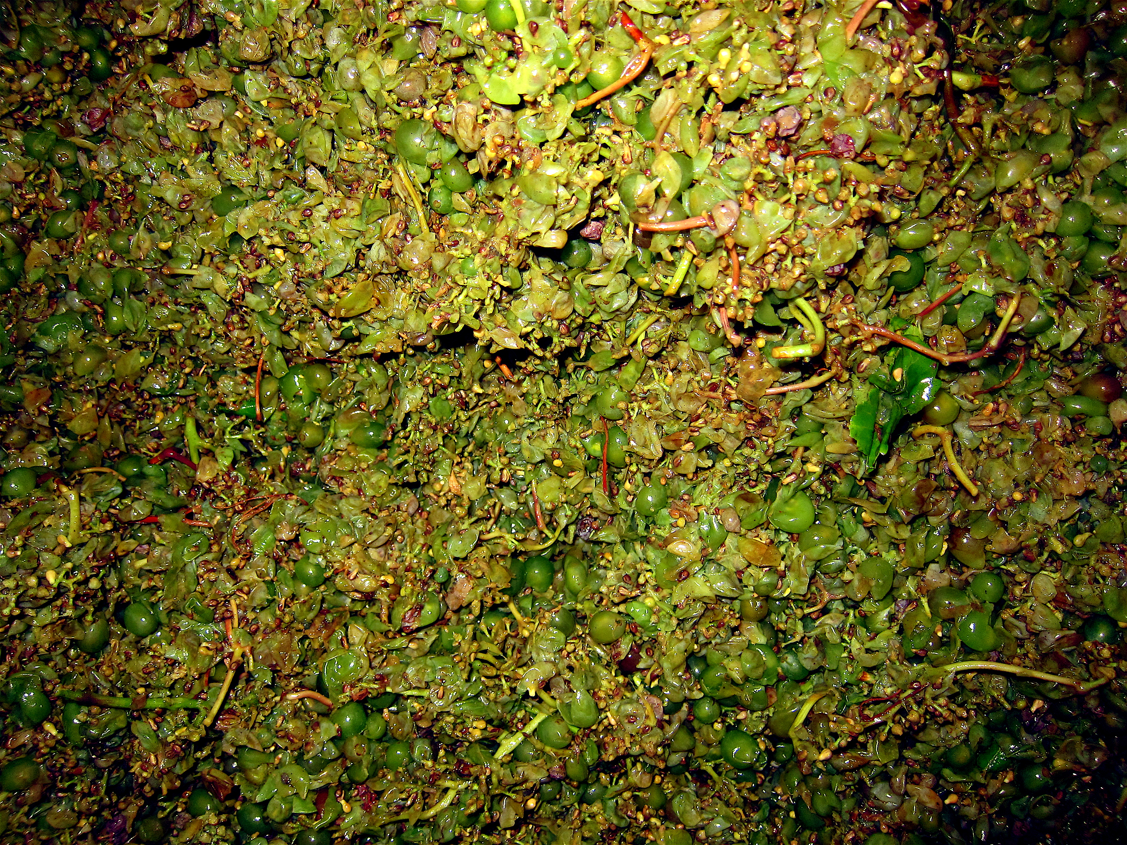 Pomace from Treixadura grapes after pressing